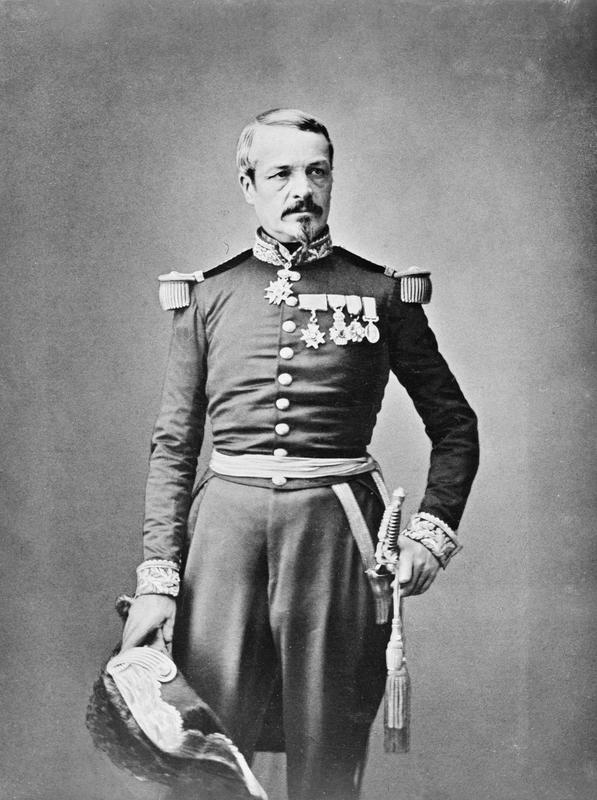 Crimean War 1854-56 General Charles Frossard, who commanded the Engineers of the 2nd Corps of the French Army.